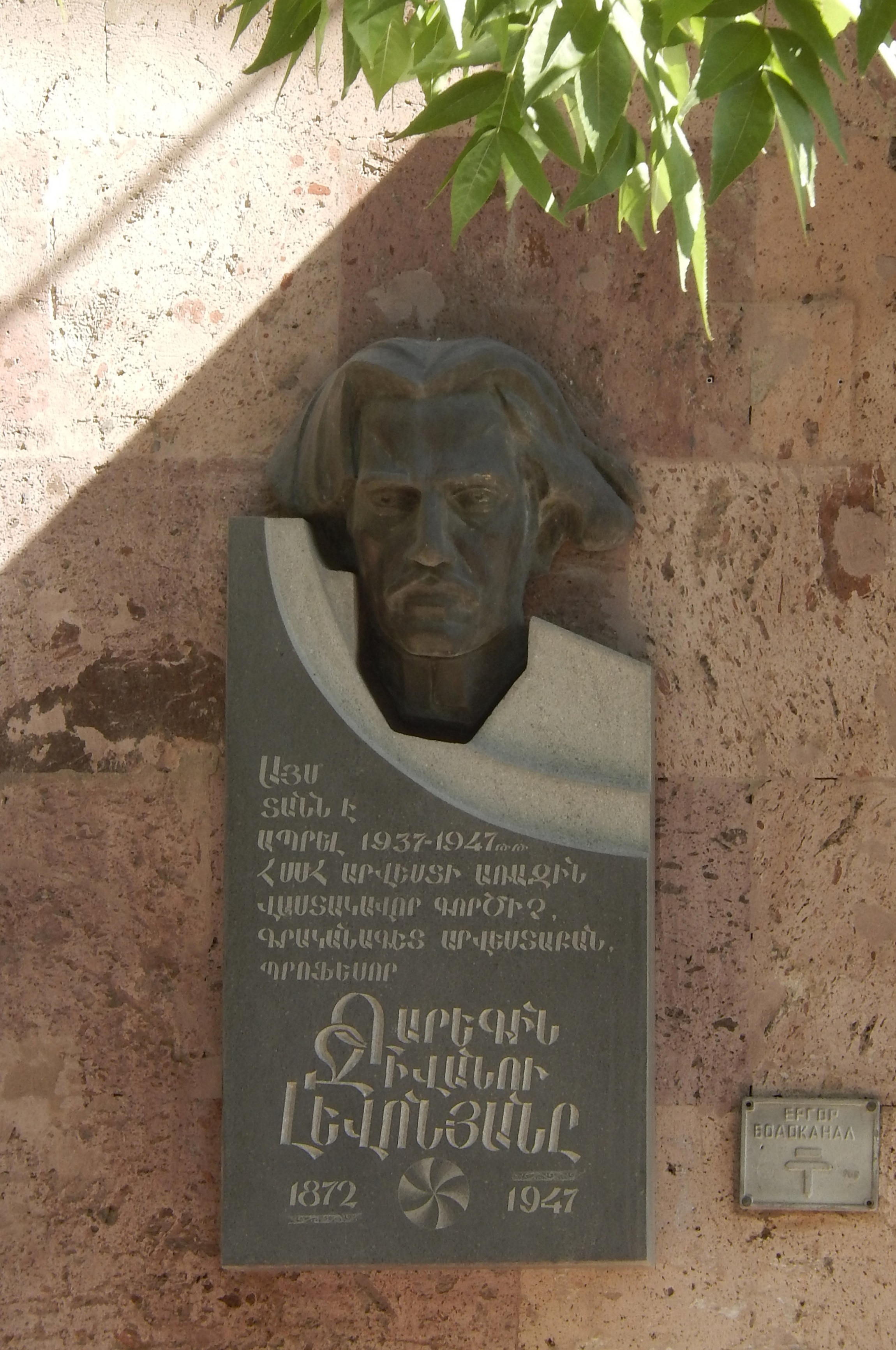 Garegin Levonyan's plaque in Yerevan